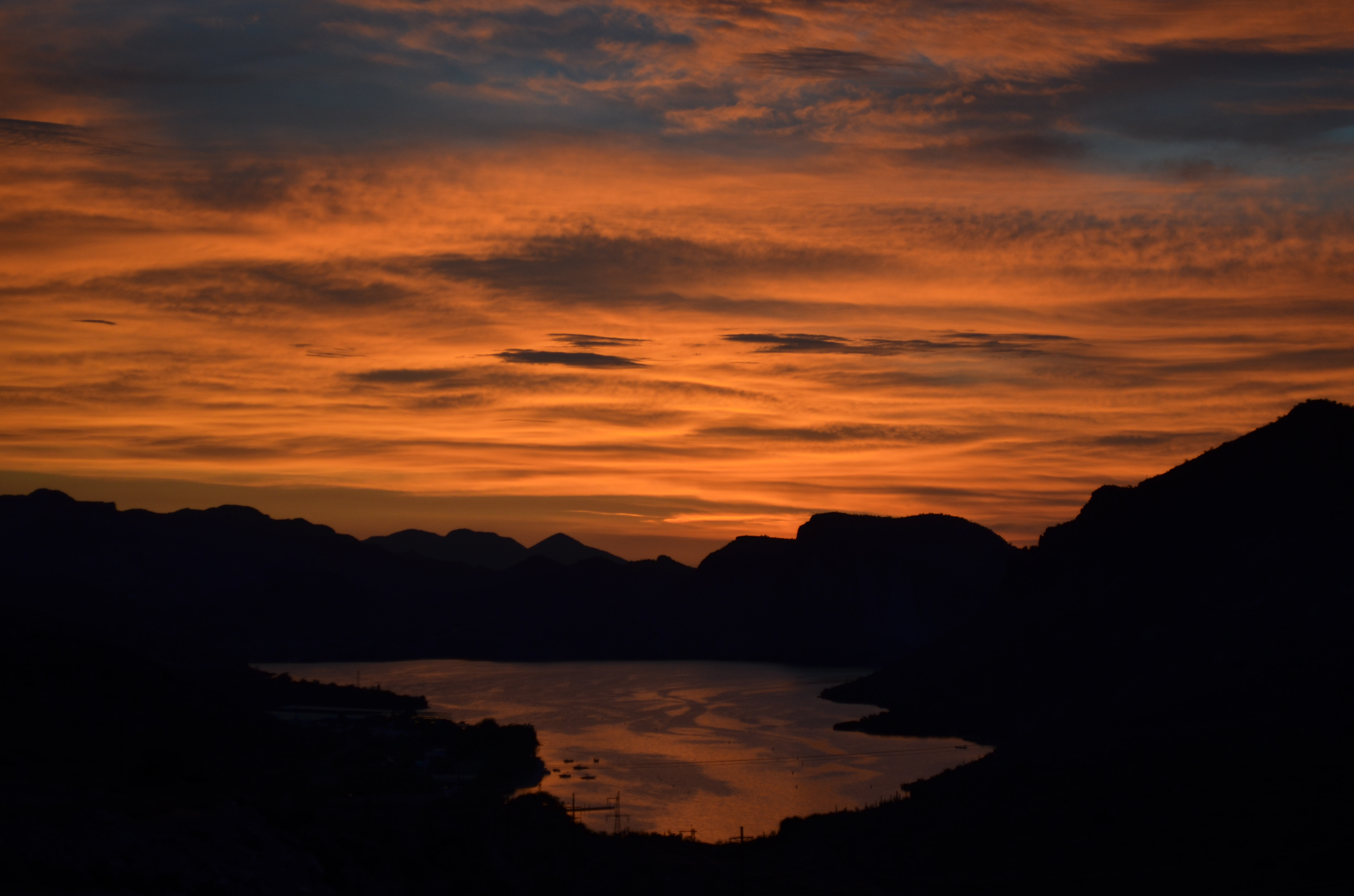 Canyon Lake, AZ at Sunset